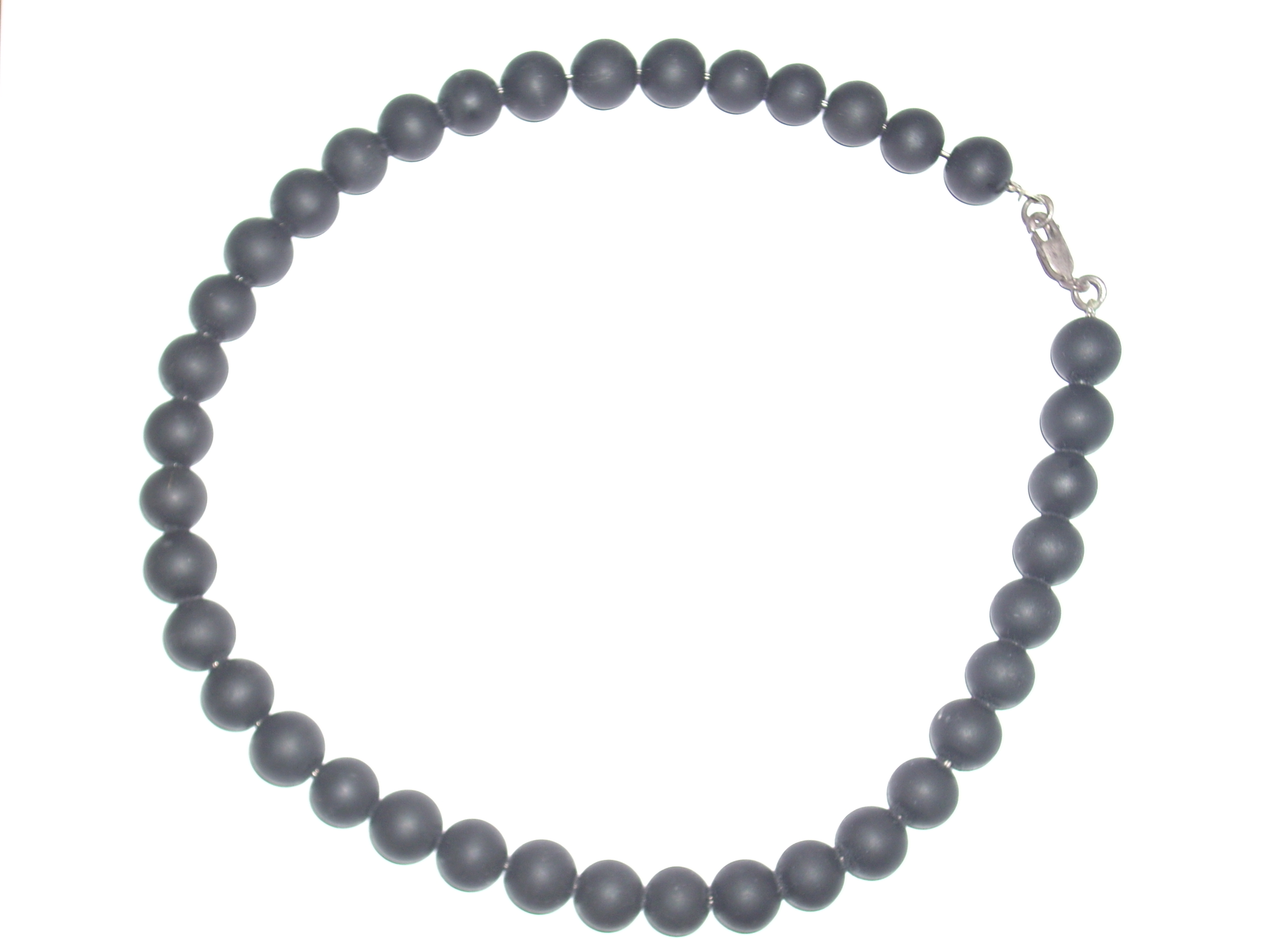 Bian stone necklace directly works on the thoracic area and improve the respiratory pathway. Its healing effects help to get rid of airflow obstruction, bronchial hyper-responsiveness and make the breathing easy.